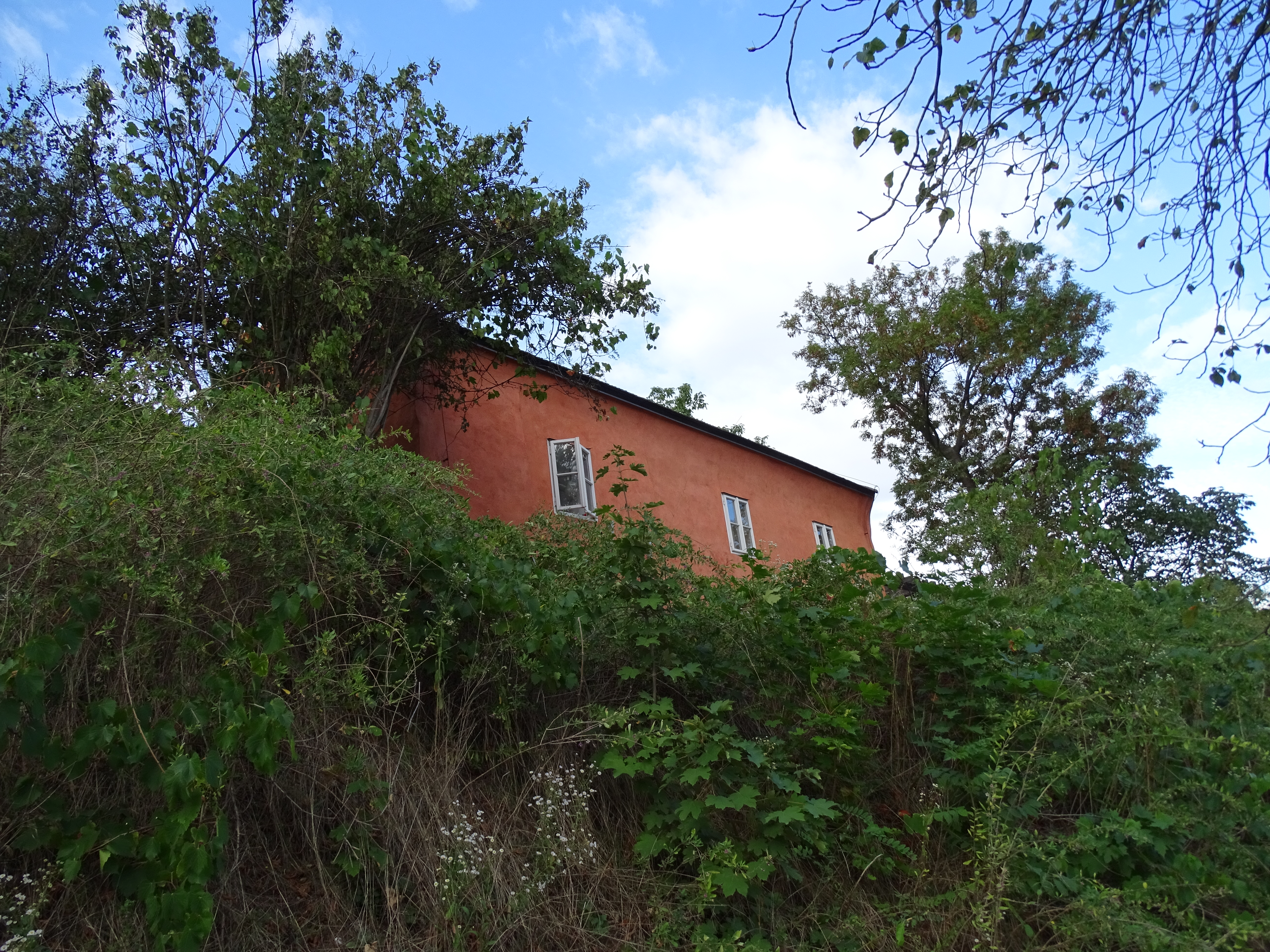 Prague-Troja, Czech Republic. Prague Zoo. Černohouska house.